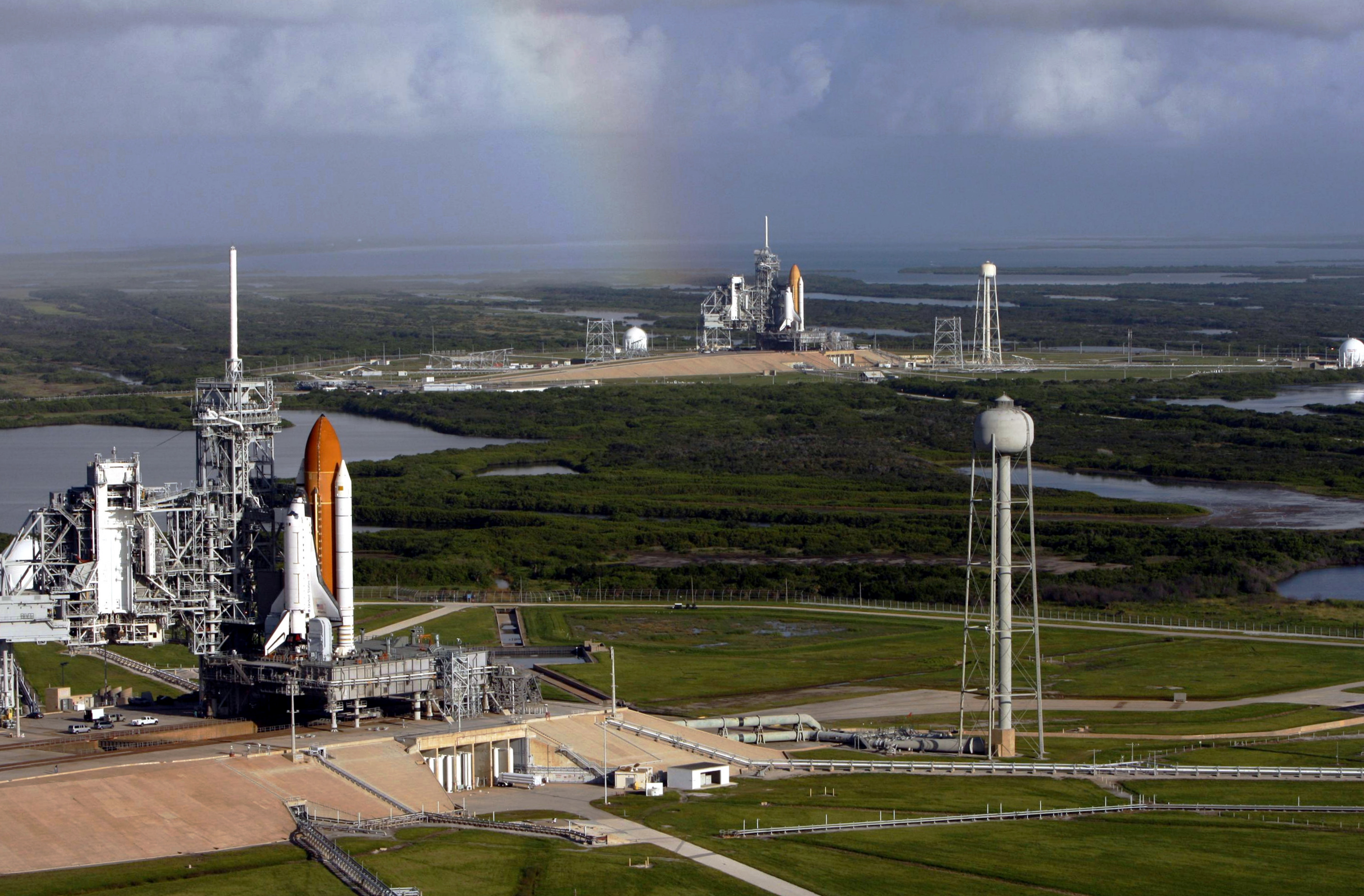 Space shuttle Atlantis (foreground) standing on Launch Pad A and Endeavour on Launch Pad B at NASA's Kennedy Space Center in Florida. At the left of each shuttle are the open rotating service structures with the payload changeout rooms revealed. The rotating service structures provide protection for weather and access to the shuttle. For the first time since July 2001, two shuttles are on the launch pads at the same time. Endeavour stands by at pad B in the unlikely event that a rescue mission is necessary during Atlantis' upcoming STS-125 mission to repair NASA's Hubble Space Telescope. The mission is slated to launch October 10 2008. After Endeavour is cleared from its duty as a rescue spacecraft, it will be moved to Launch Pad 39A for its STS-126 mission to the International Space Station. That flight is targeted for launch Nov. 12 2008